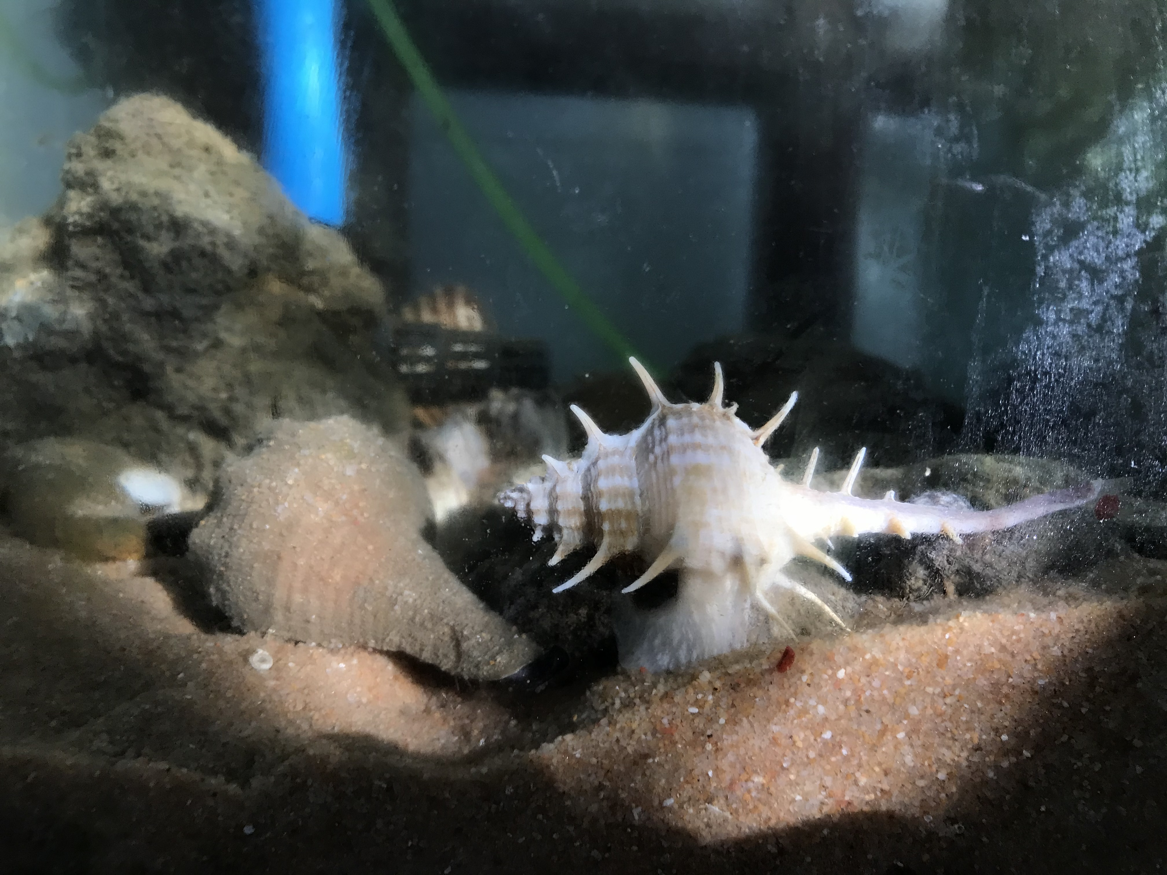 Marine gastropods